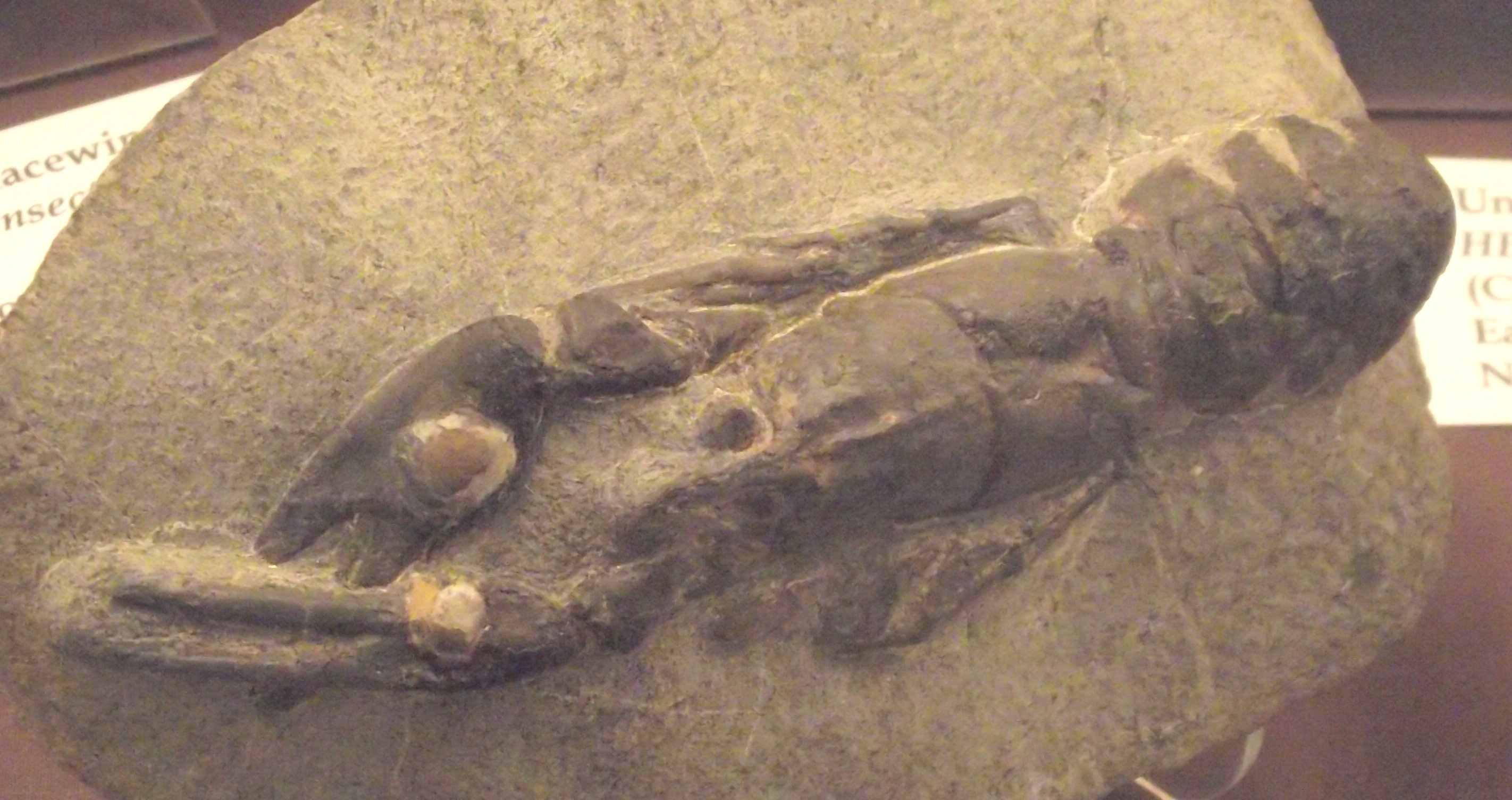 Crop of file in filename